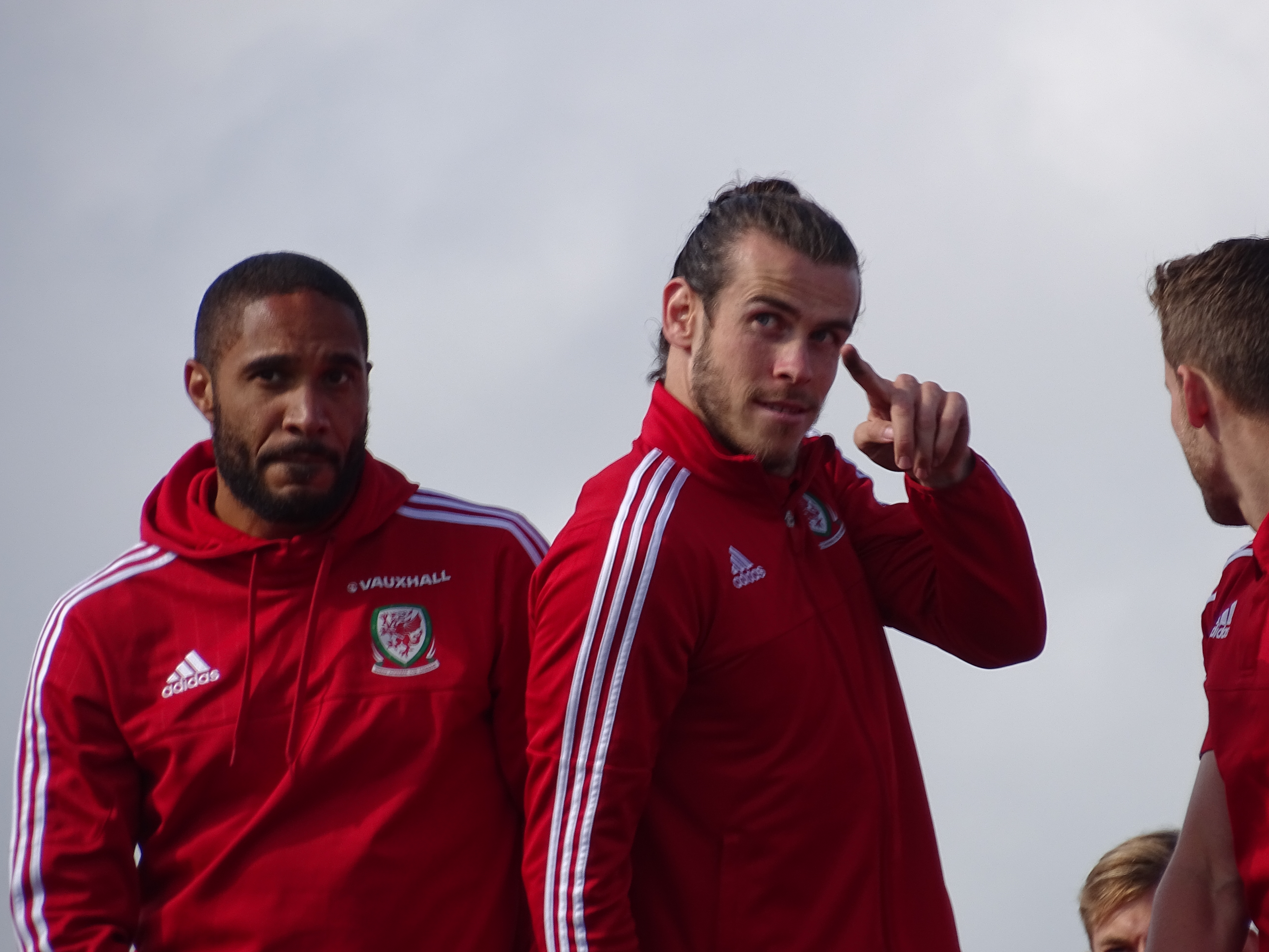 Ashley Williams, Gareth Bale post-Euro 2016 homecoming party.